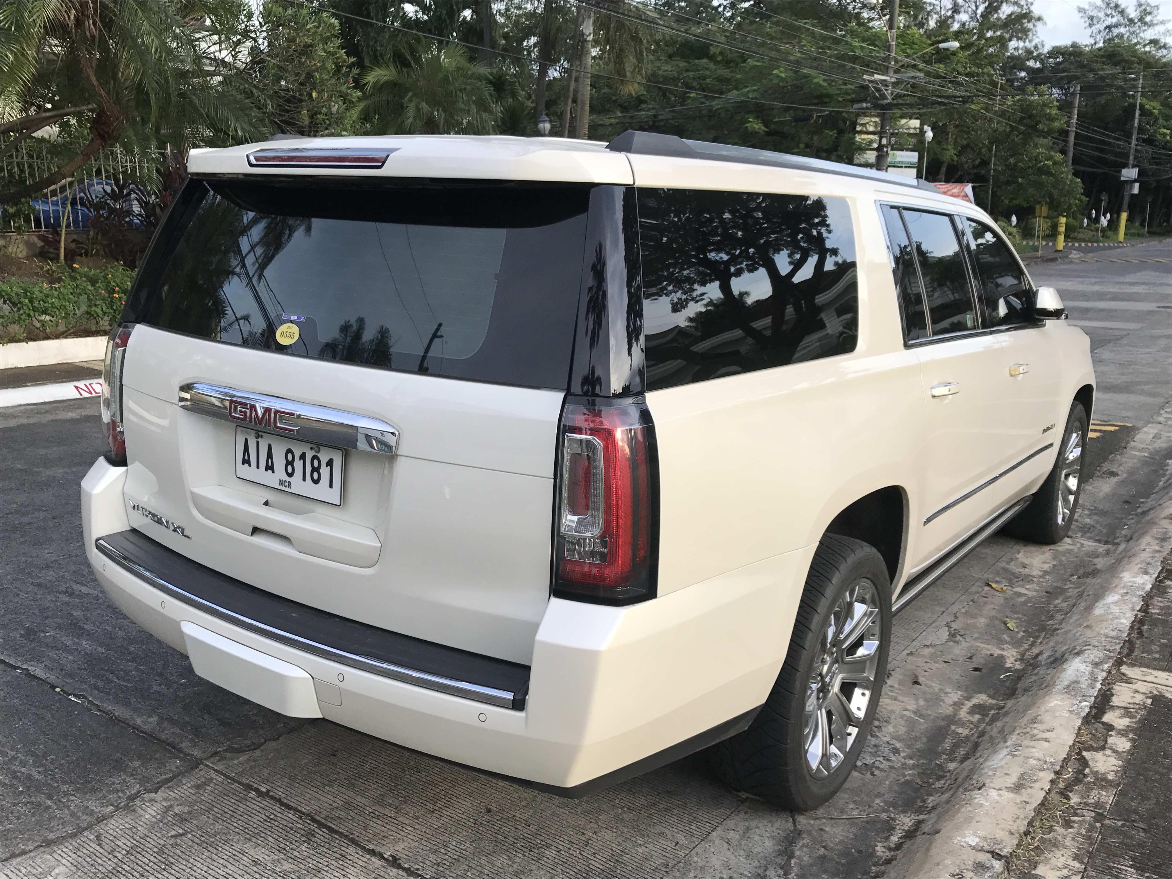 Rear side of a GMC Yukon XL Denali.